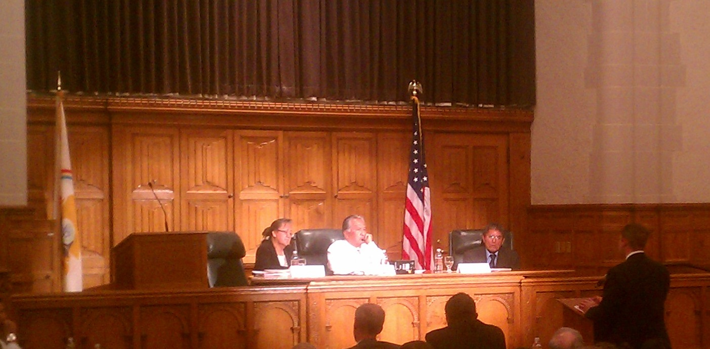 On November 14, 2011, the Supreme Court of the Navajo Nation heard oral arguments at Yale Law School in New Haven, CT. The three-justice panel was comprised of Chief Judge Robert Yazzie, Justice Eleanor Shirley, and Justice Wilson Yellowhair (by special designation).